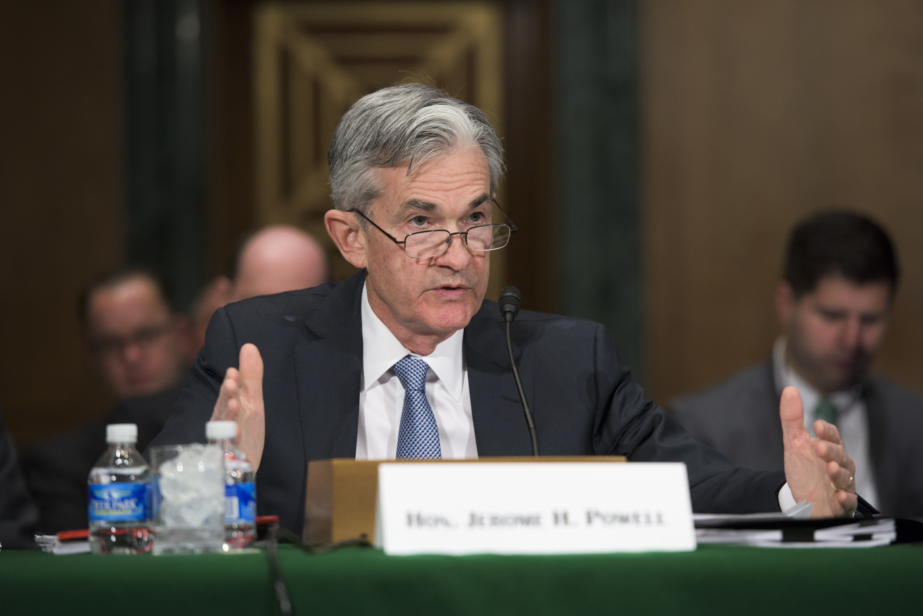 Governor Jerome H. Powell testifies before a joint hearing of the Senate Banking Subcommittee on Securities, Insurance, and Investments and the Subcommittee on Economic Policy in Washington, D.C., on April 14, 2016.